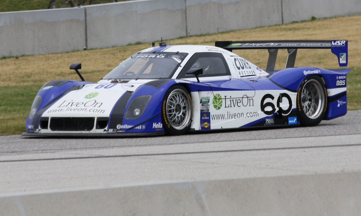 The Michael Shank Racing Daytona Prototype driven by Oswaldo Negri, Jr. and John Pew at a 2012 race at Road America.